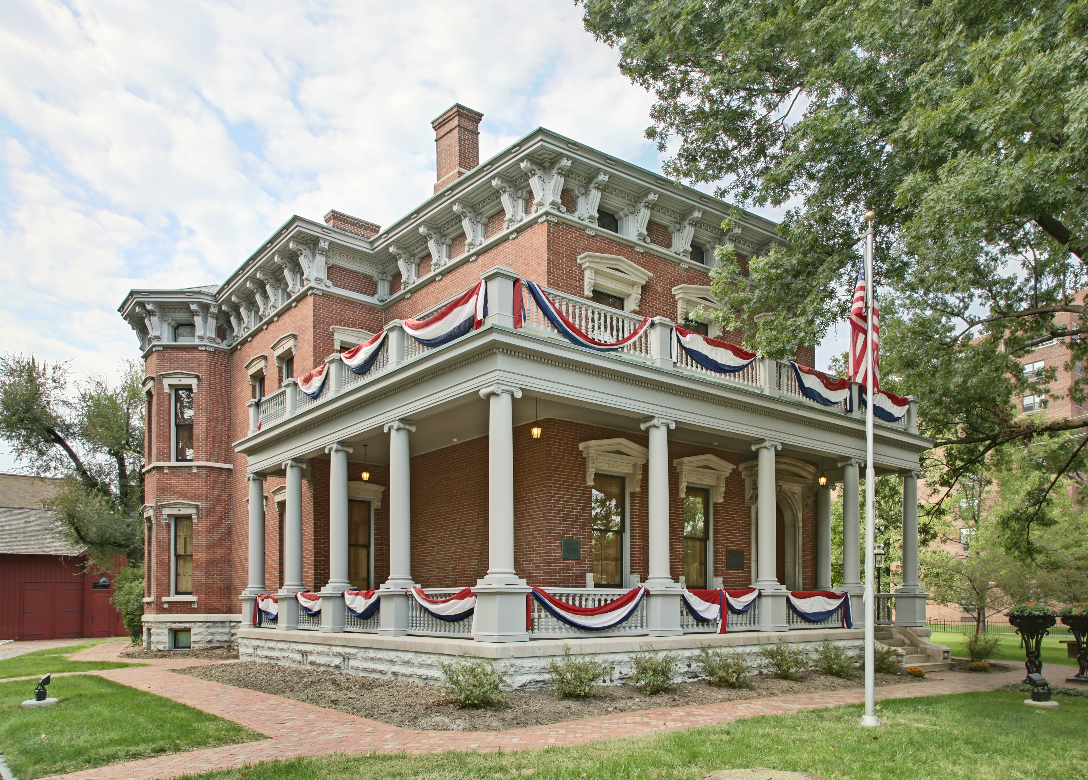 Home of Benjamin Harrison, 23rd president of the United States of America, Indianapolis This image was created with Hugin.